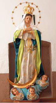 Inmmaculate Conception